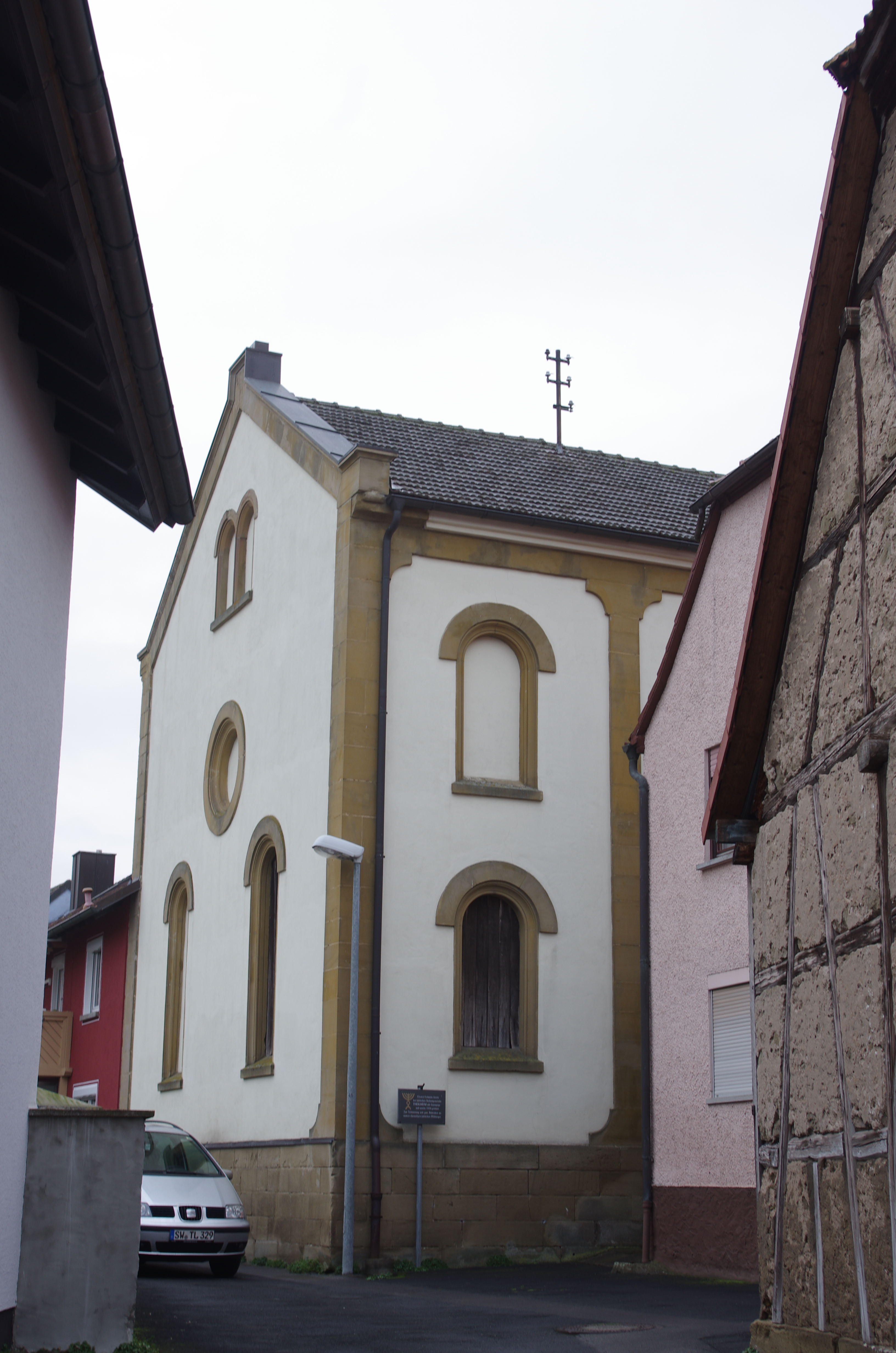 Object location49° 56′ 35.99″ N, 10° 08′ 41.03″ E